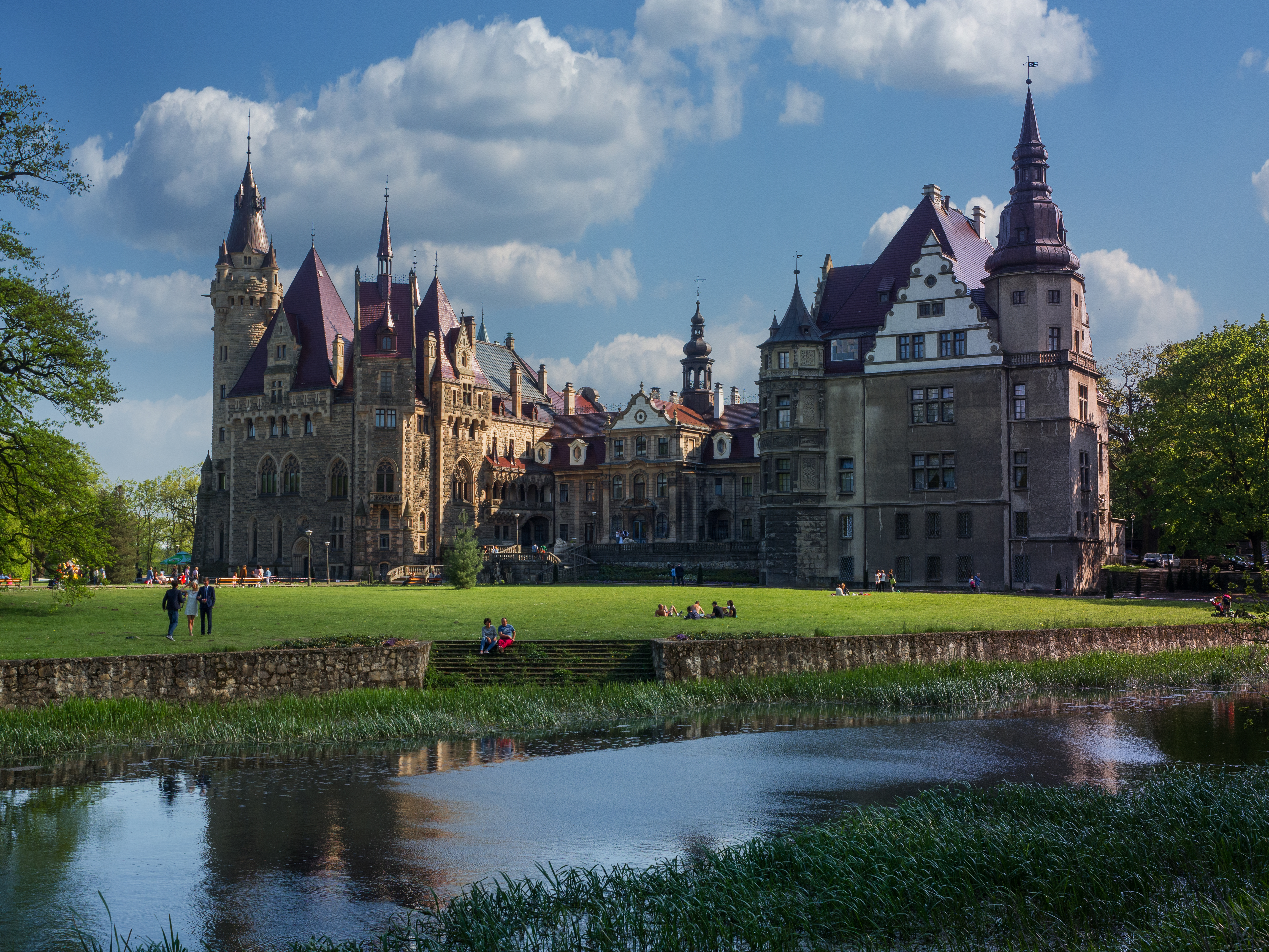 Moszna Palace, Poland